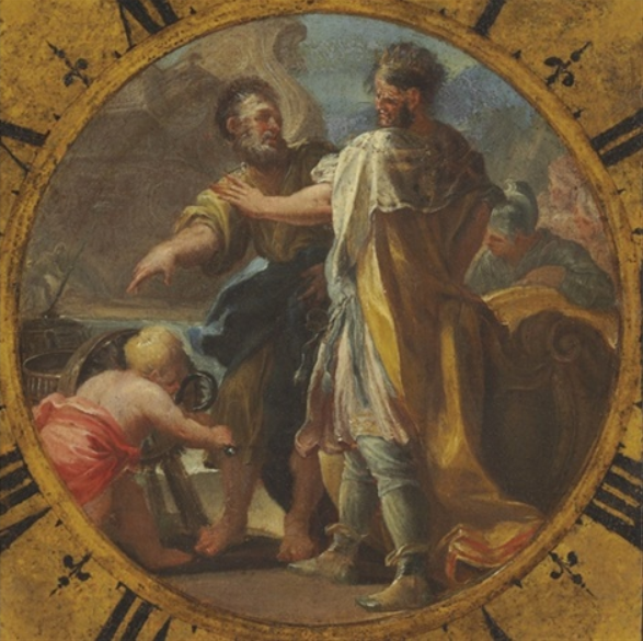 Archimedes demonstrating his invention to King Hieron of Syracuse